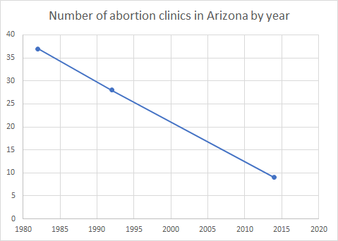 Number of abortion clinics in Arizona by year. Created using data linked on .